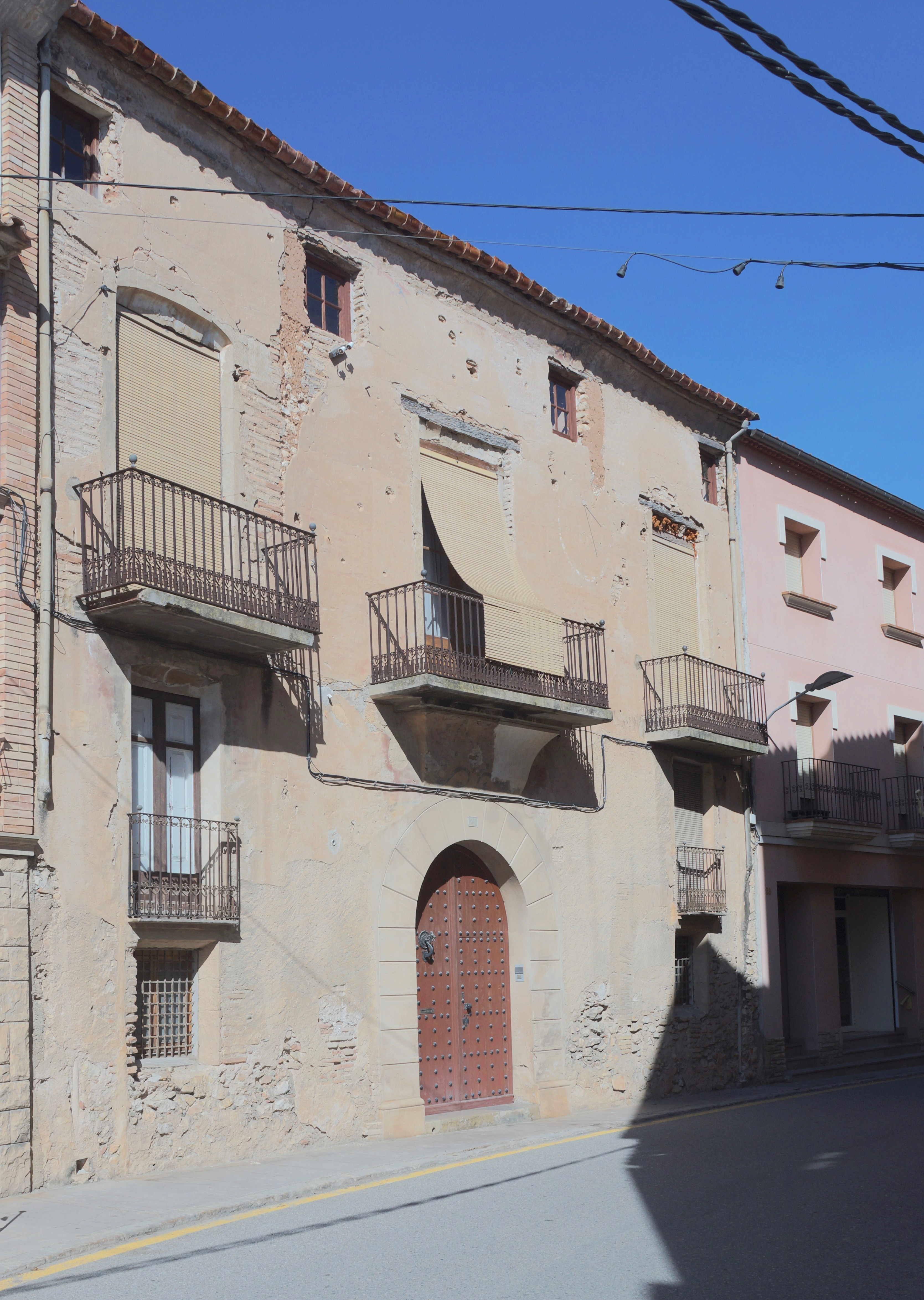 Ginestar, Catalonia: Ca Tramontà